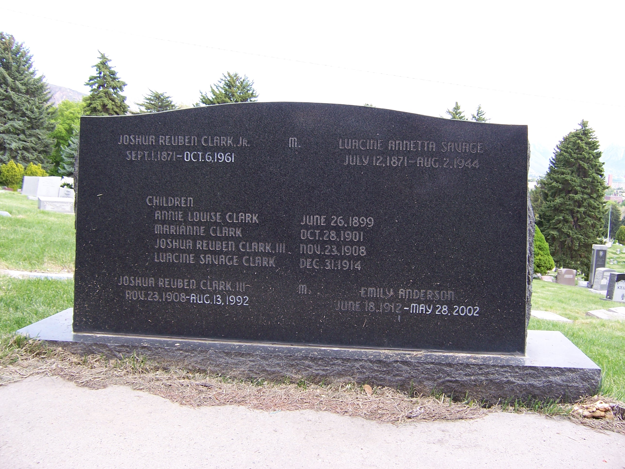 J. Reuben Clark family grave marker, back view.